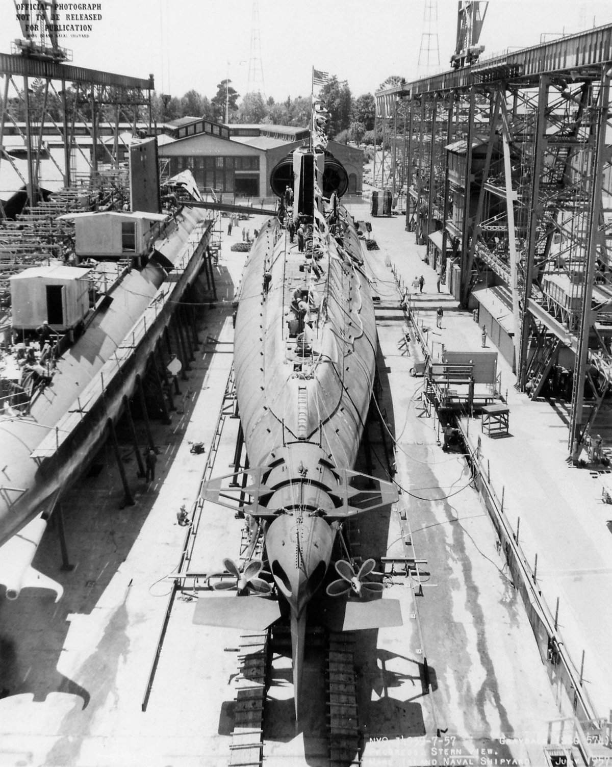 Stern view of Grayback (SSG-574) on the ways the day before her launching at Mare Island on 1 July 1957. The Sargo (SSN-583) is on the ways to the left.